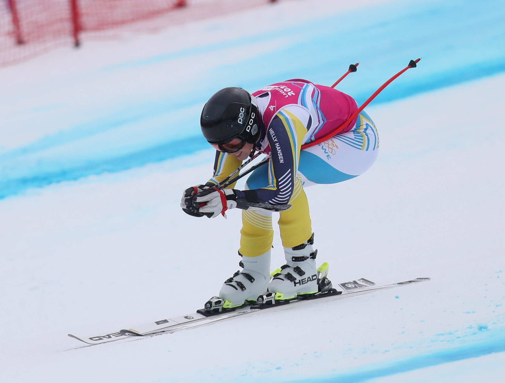 Men's Super G at the 2020 Winter Youth Olympics in Lausanne